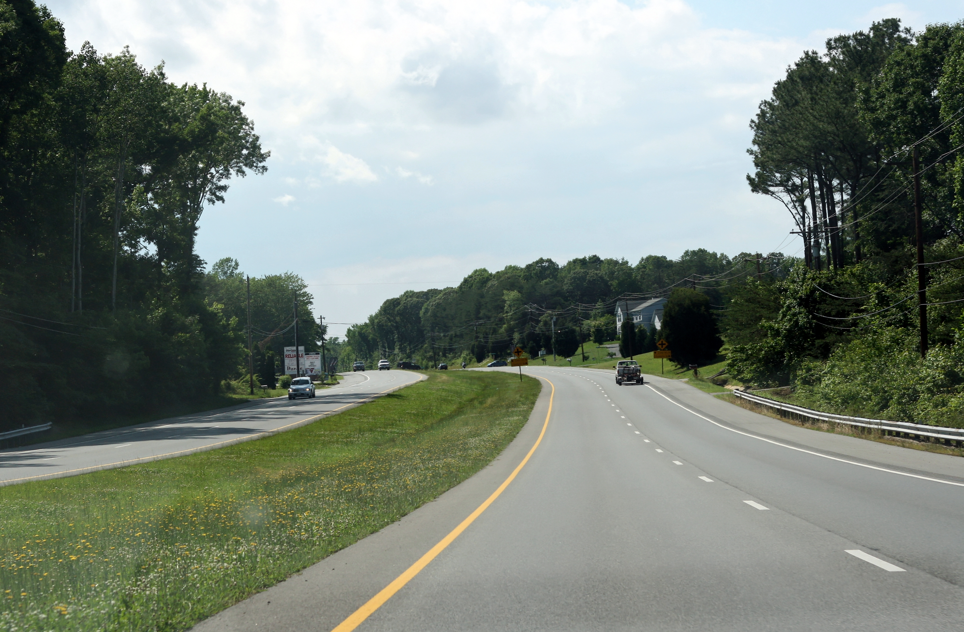 Shot of Maryland State Route 235 (Three Notch Rd), heading northbound in St. Mary's County in Southern Maryland. This is just before the intersection with Clover Hill Road and S. Sandgates Road.